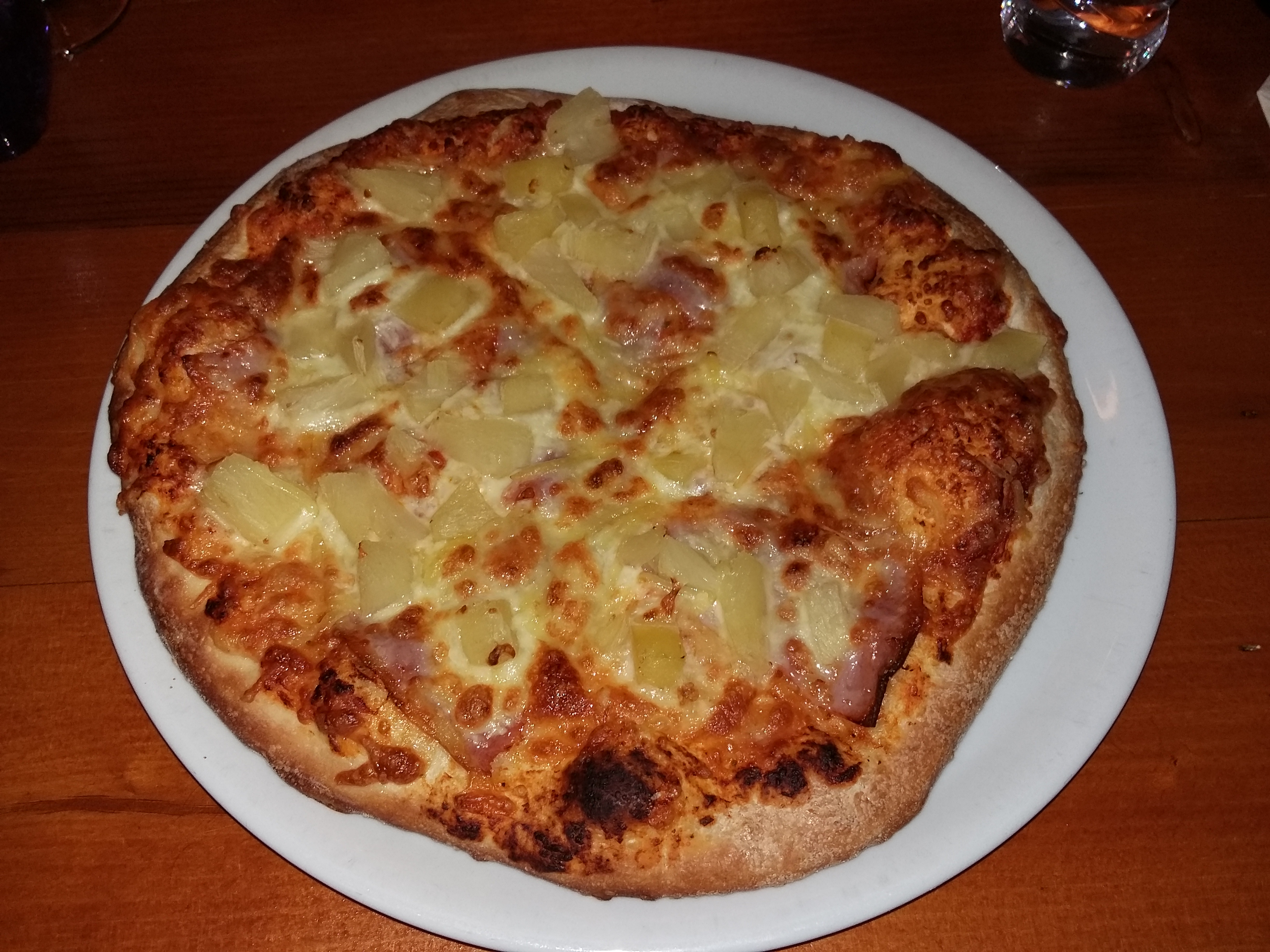 A Hawaiian pizza.